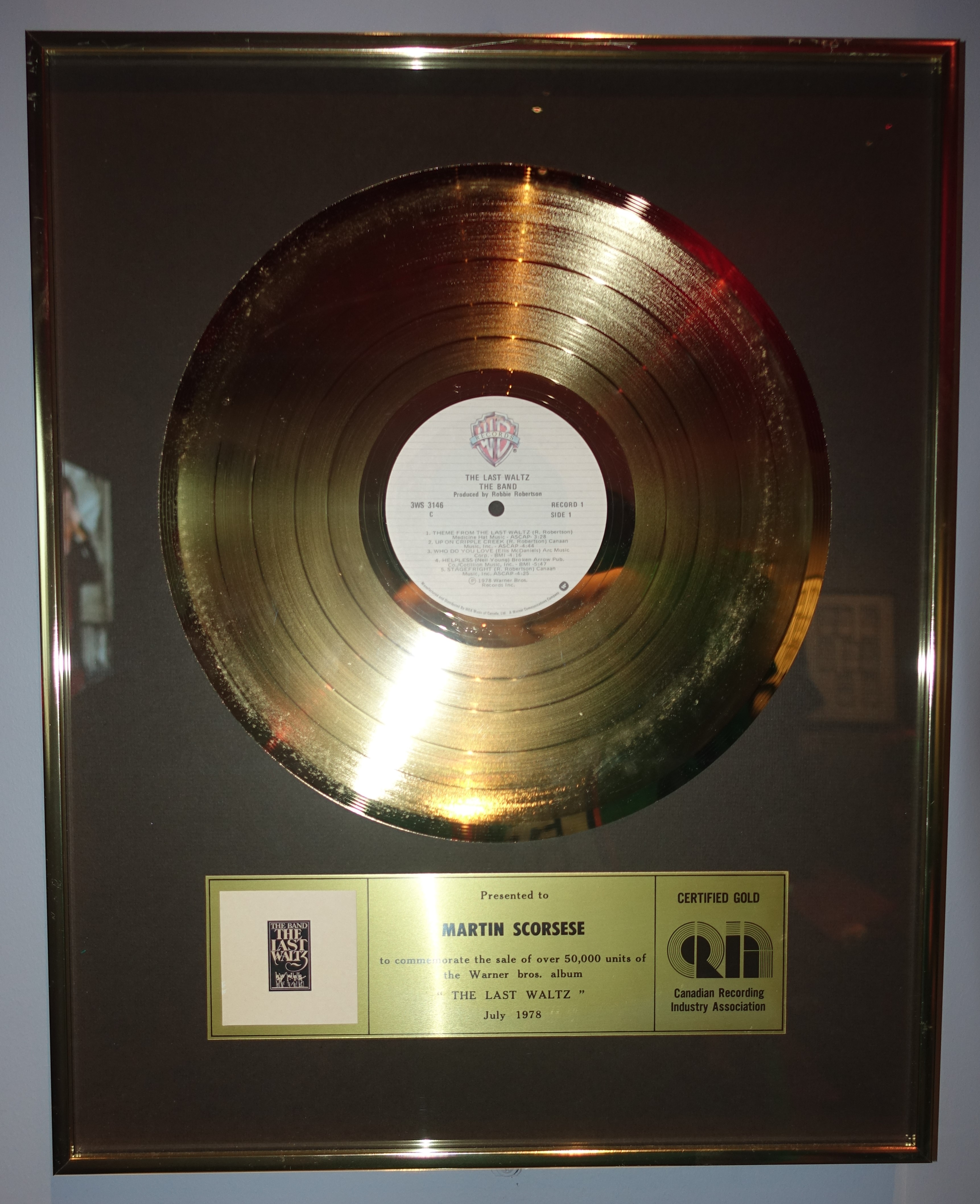 Gold certification of the 1978 The Band album The Last Waltz, presented to Martin Scorsese by the Canadian Recording Industry Association. Shot at the Australian Center of the Moving Picture in Melbourne as part of the Scorsese exhibition by the Deutsche Kinemathek Berlin.